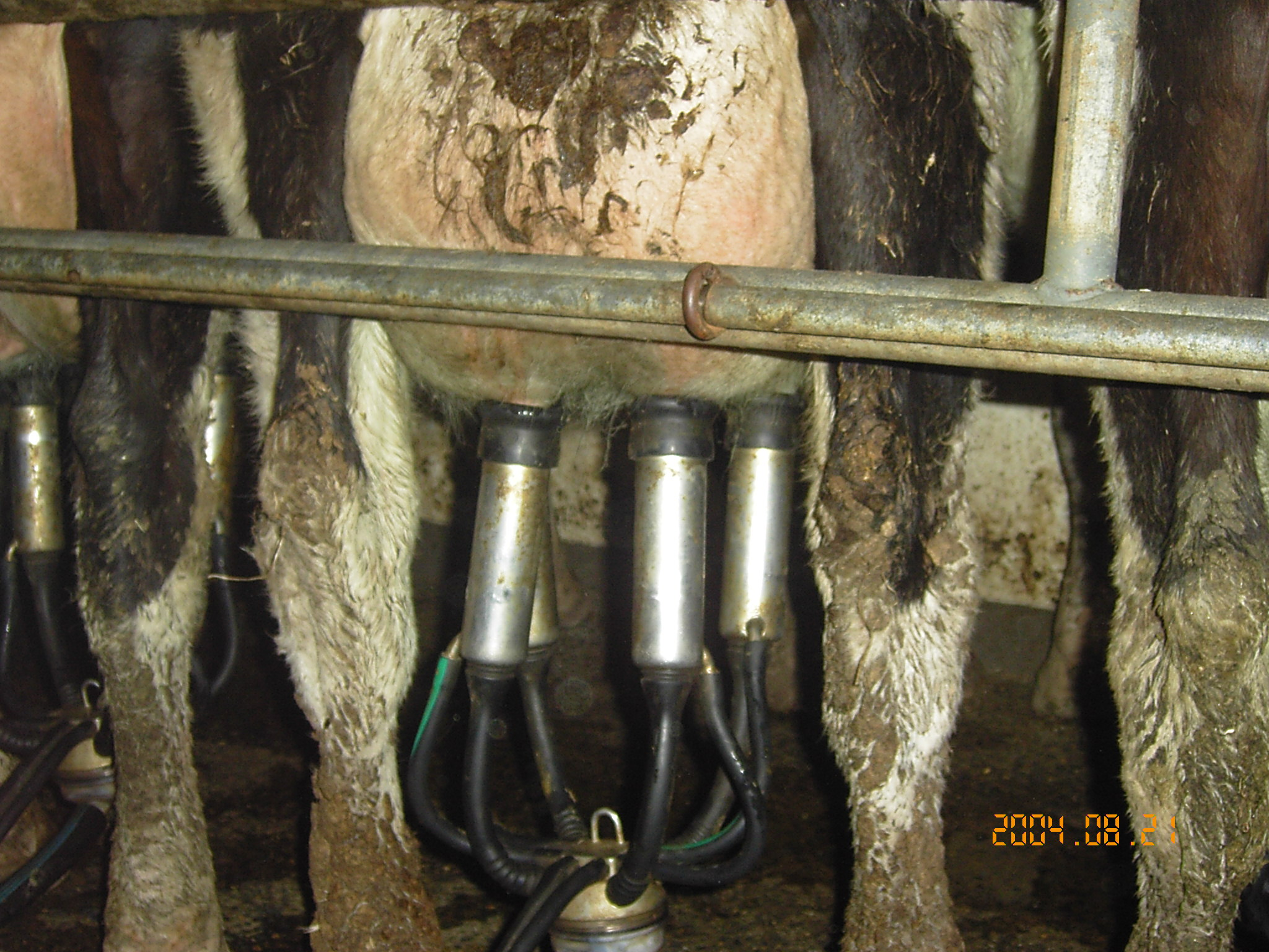 A photo of a cow being milked on a dairy farm in Girgarre, Victoria.